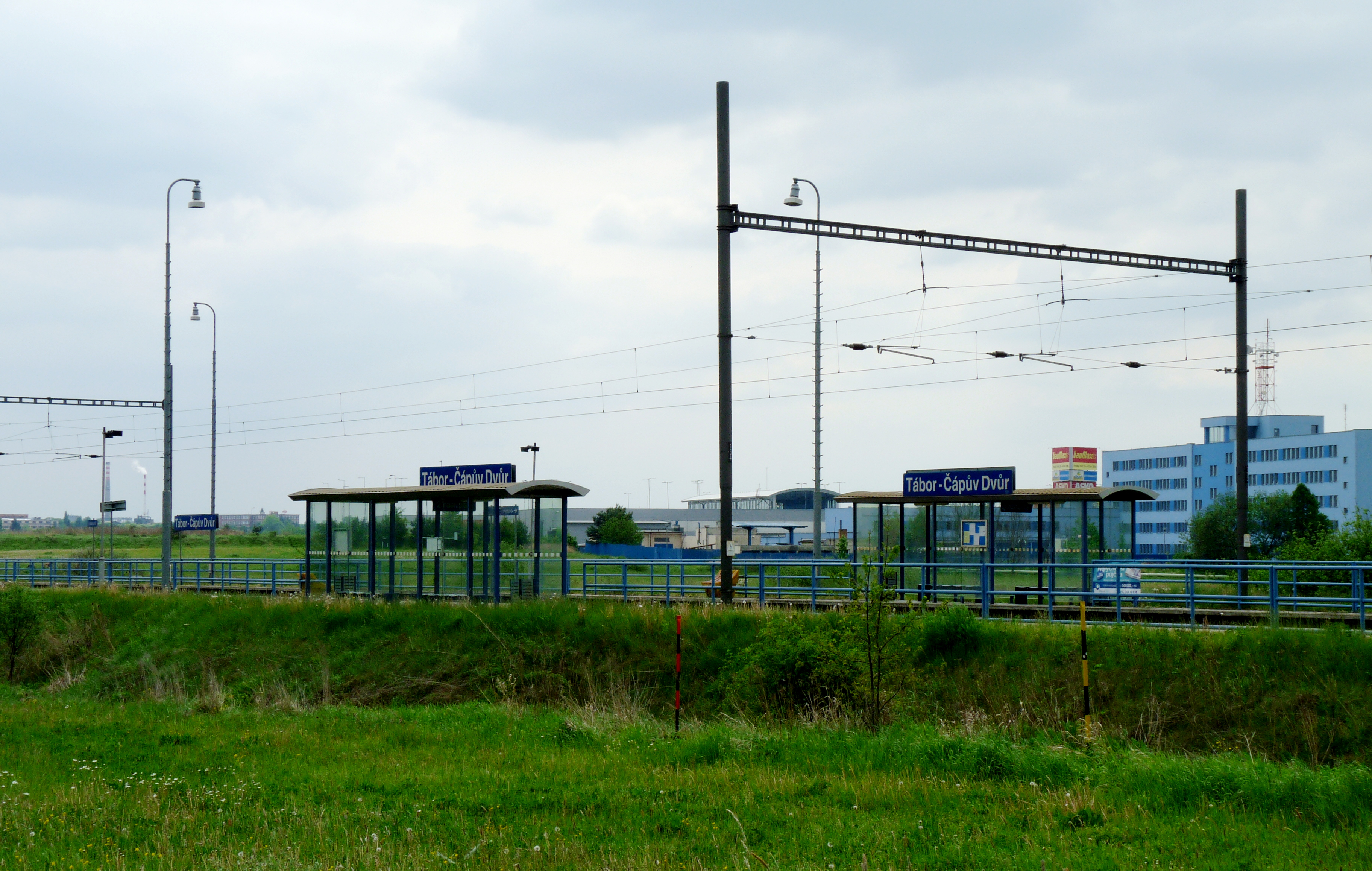 Train station Tábor - Čápův Dvůr in the town of Tábor, Tábor District, South Bohemian Region, Czech Republic.